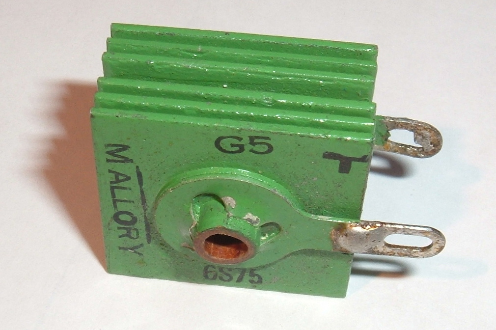 Mallory selenium rectifier from 1960s. Each plate is 1 inch square. I took this photograph of an artifact in my possession.